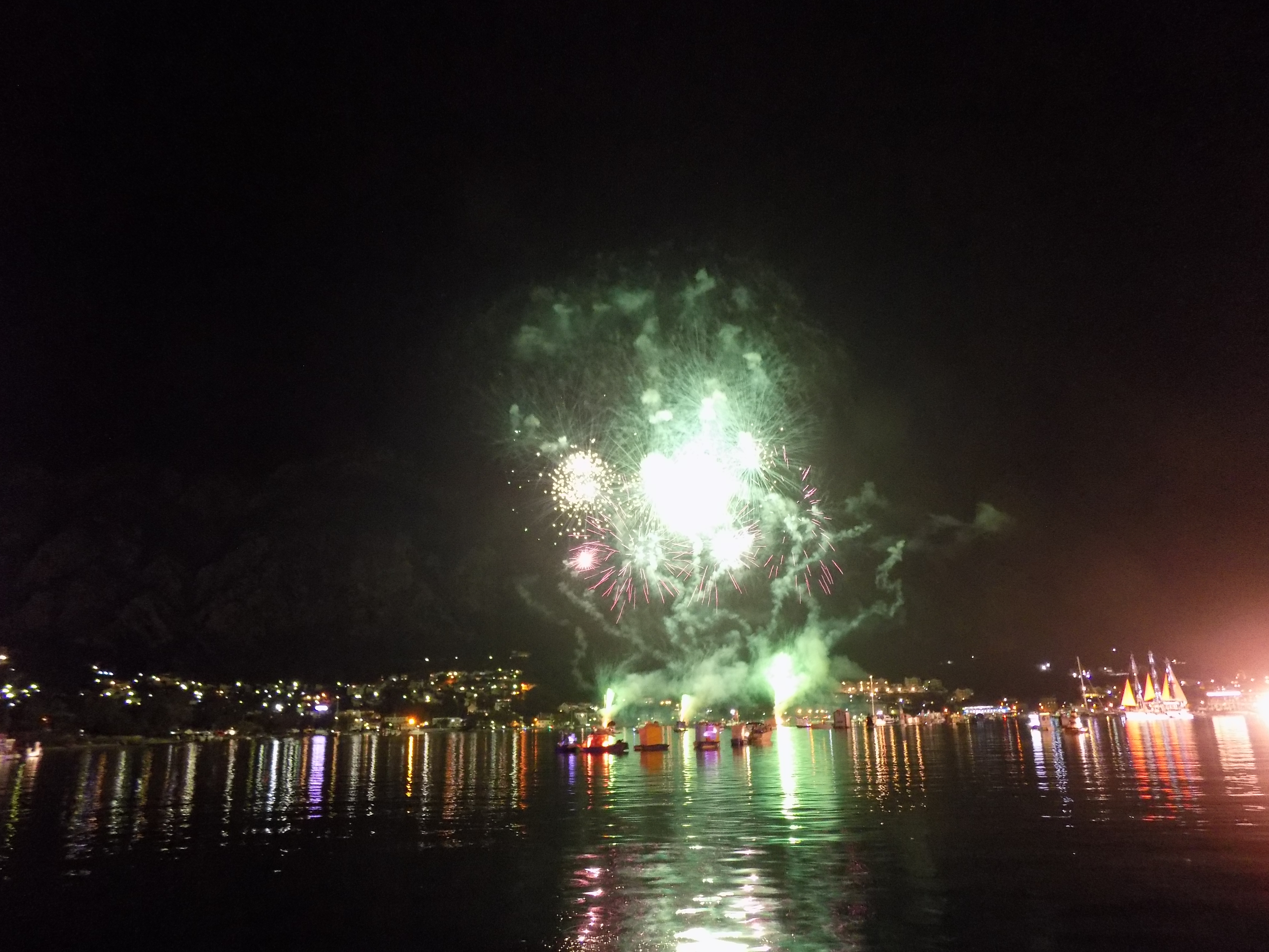 Fireworks at Boka Night Festival in Kotor, Montenegro